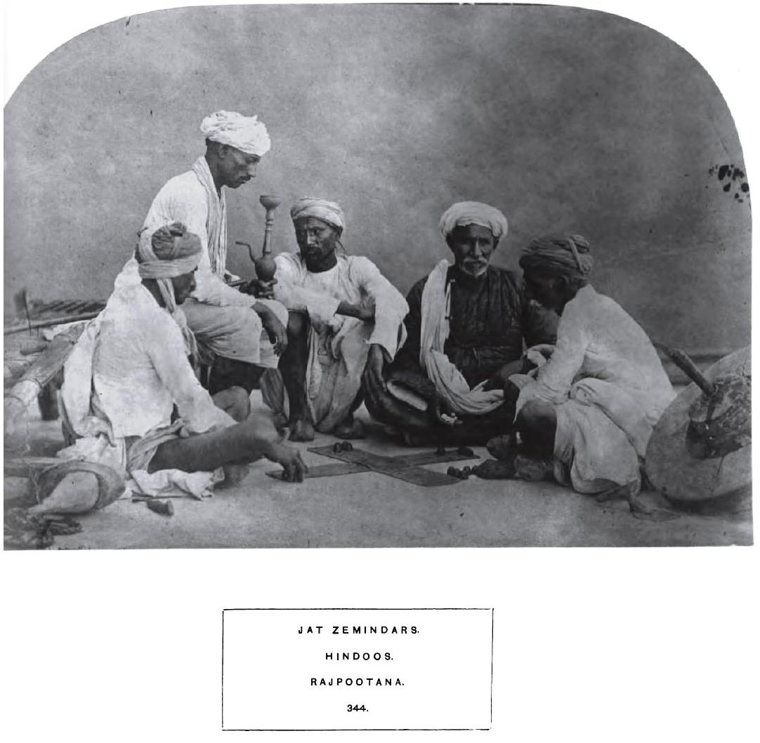 Ethnographic photograph of Jat zemindars (land owners) in Rajpootana (now Rajasthan) 1874